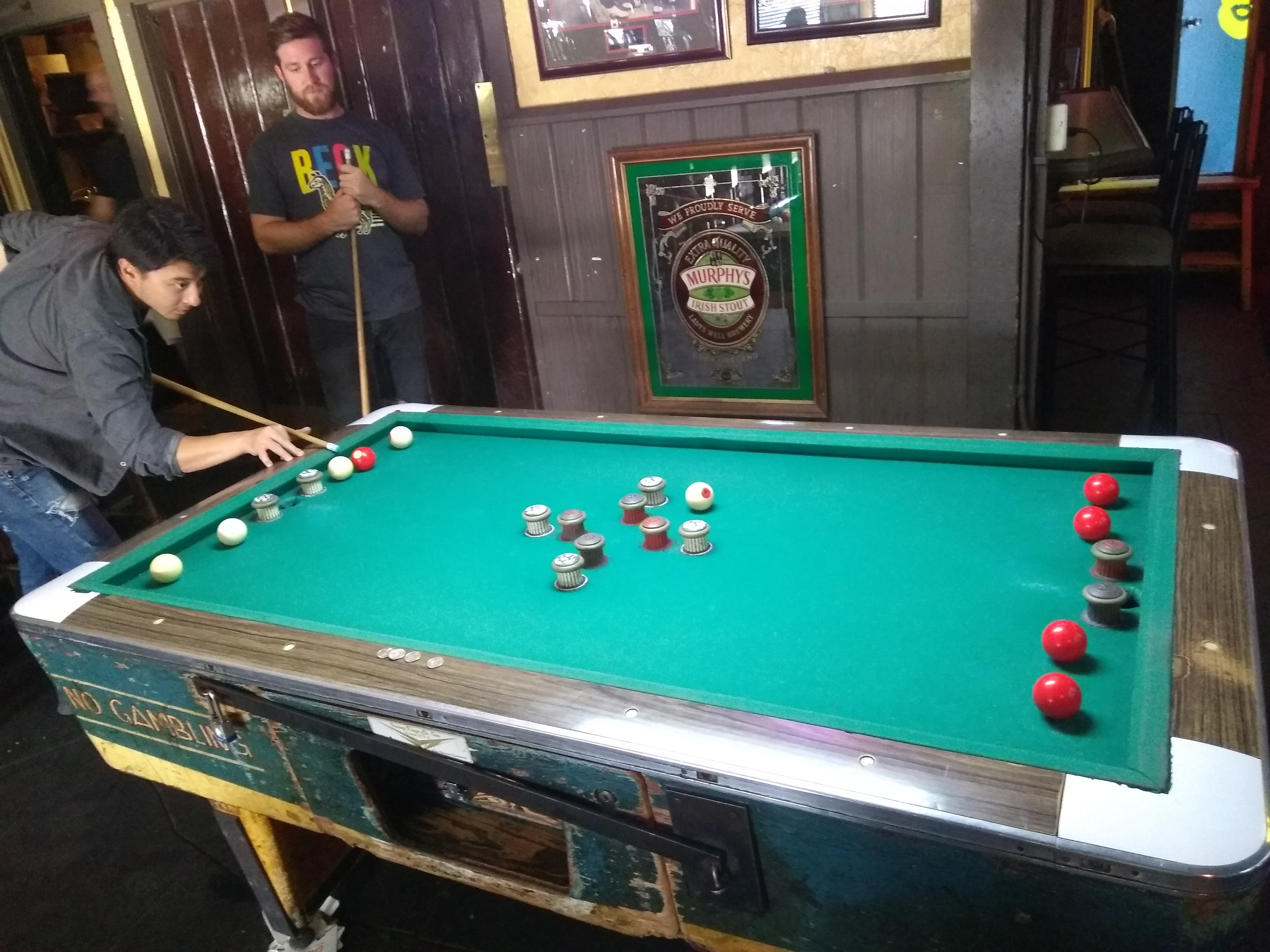 Bumper pool at McNally's pub in Oakland, California.